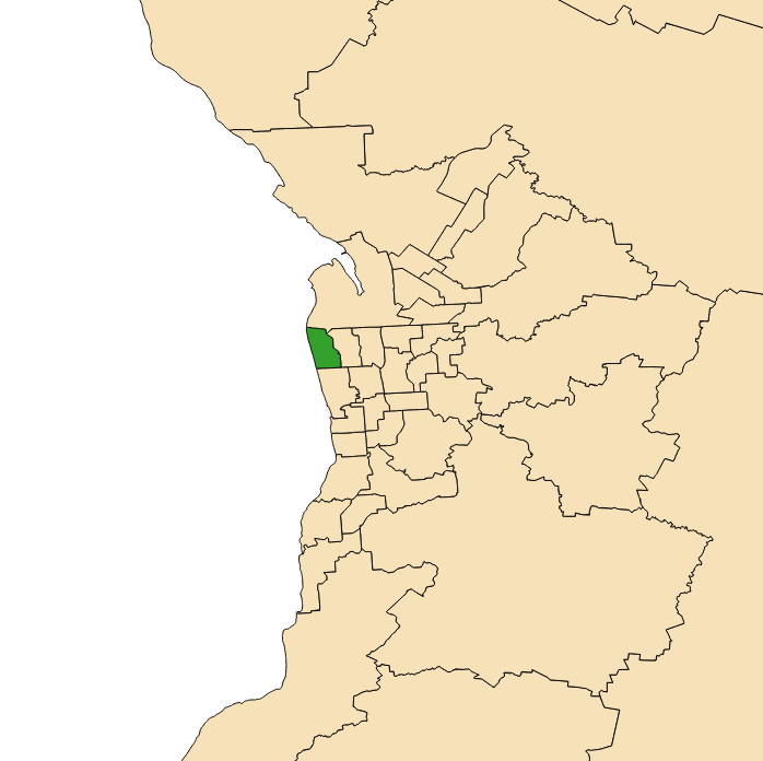 Electoral district 2018 boundaries shown in green